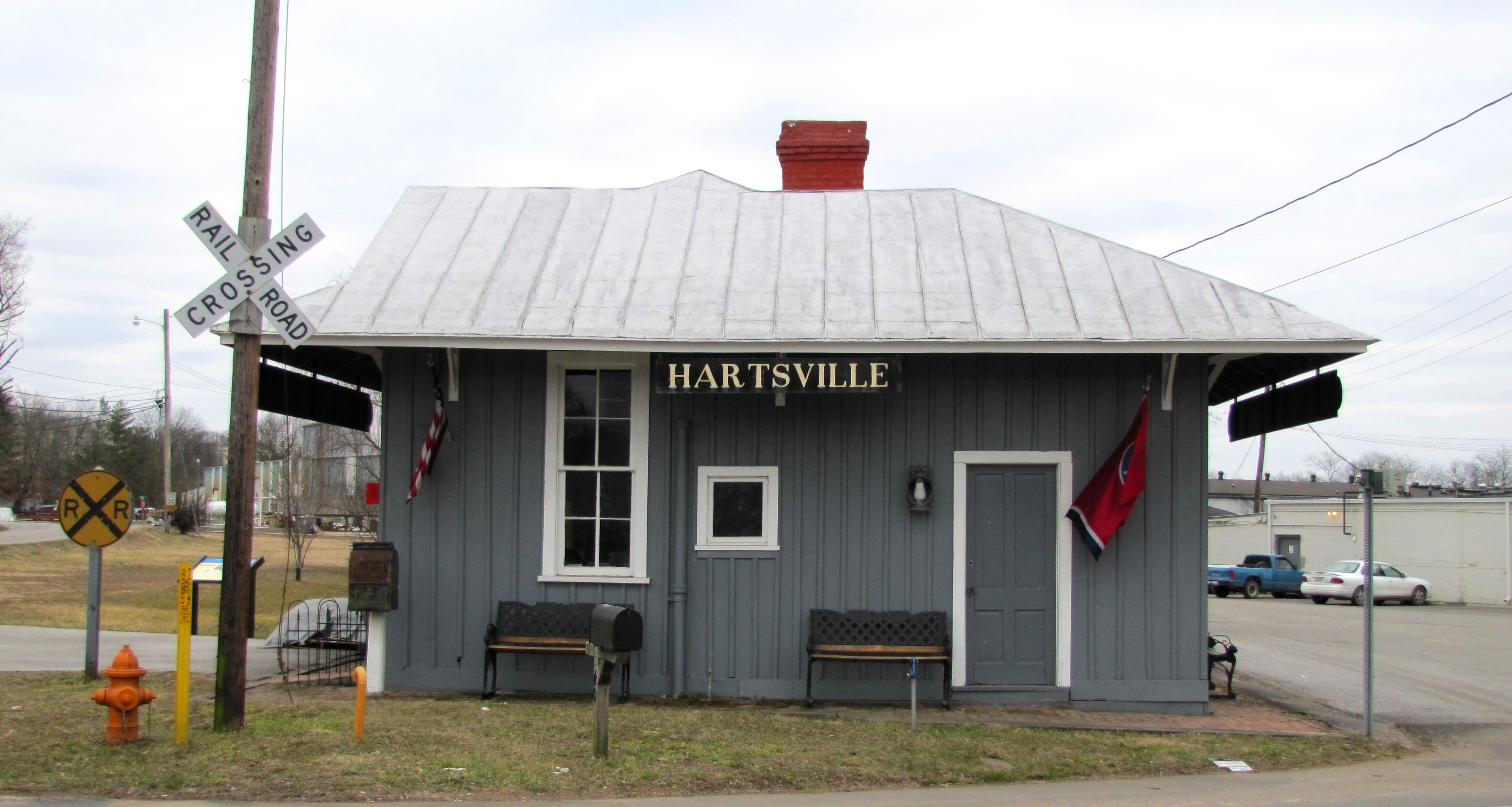 The L&N Depot in Hartsville, Tennessee, USA, now home to the city's Chamber of Commerce.